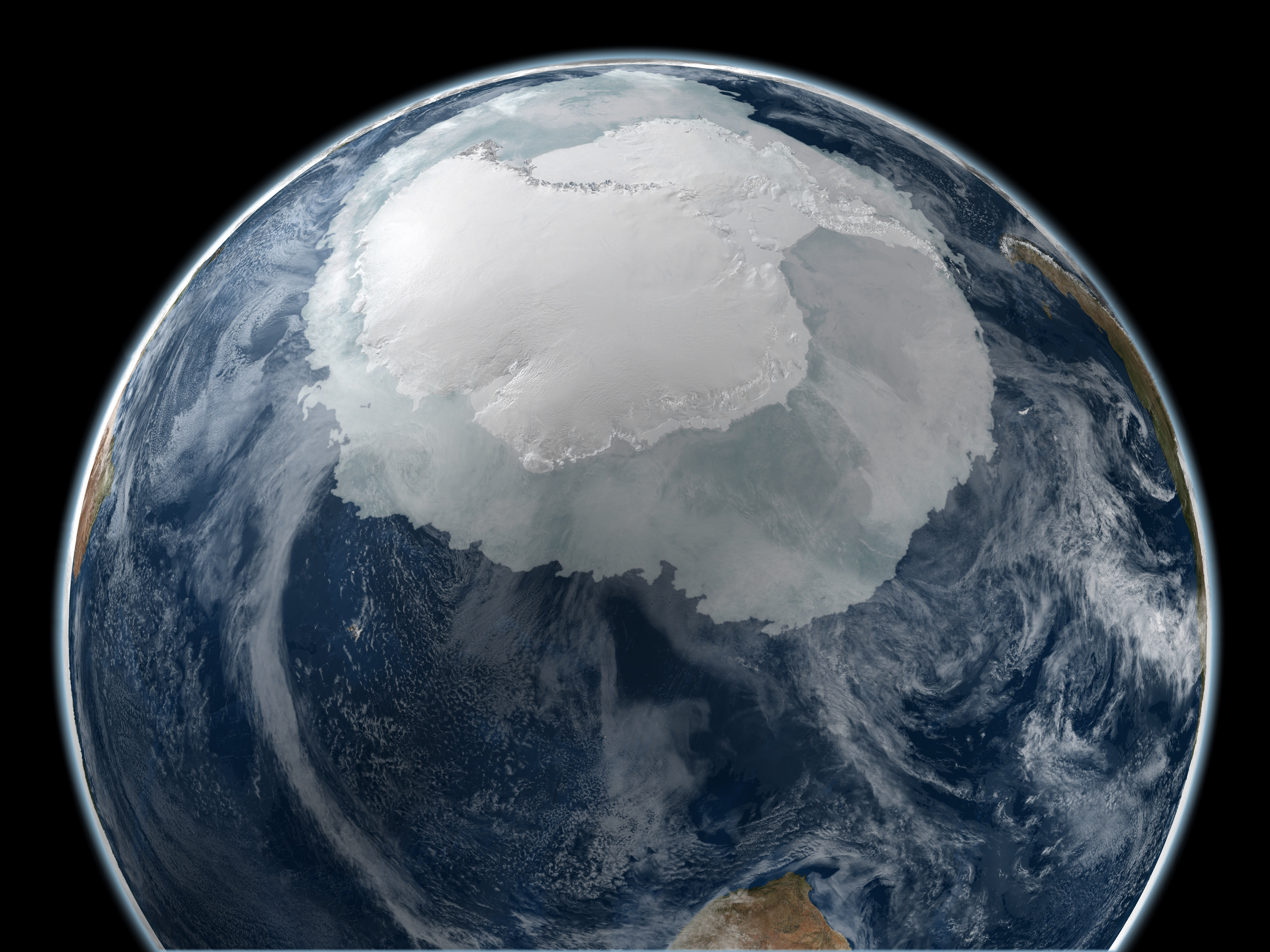 Collection: NASA Scientific Visualization Studio Collection.Compilation of NASA stills, film and video, created in partnership with Internet Archive.Image n.a003402. This image shows a view of the Earth on September 21, 2005 with the full Antarctic region visible. Description: This matching pair of images showing a global view of the Arctic and Antarctic . The images also show the sea ice in the date at which it was at its minimum extent in the northern hemisphere.